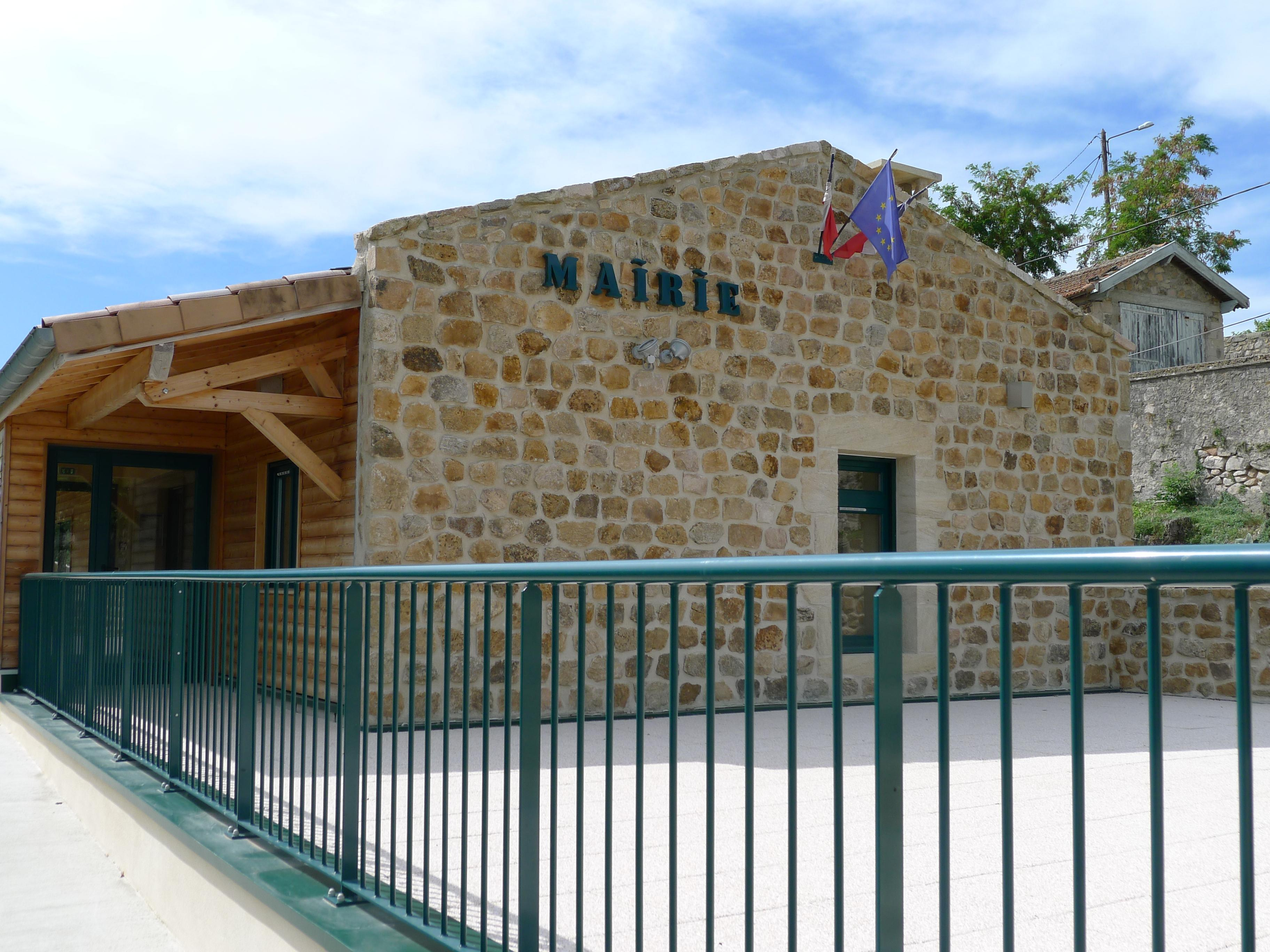 Town hall of Boffres - Ardèche - France